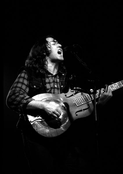 Rory Gallagher performing during his 1978/79 Tour, in The National Stadium, Dublin, Ireland Photo: Eddie Mallin